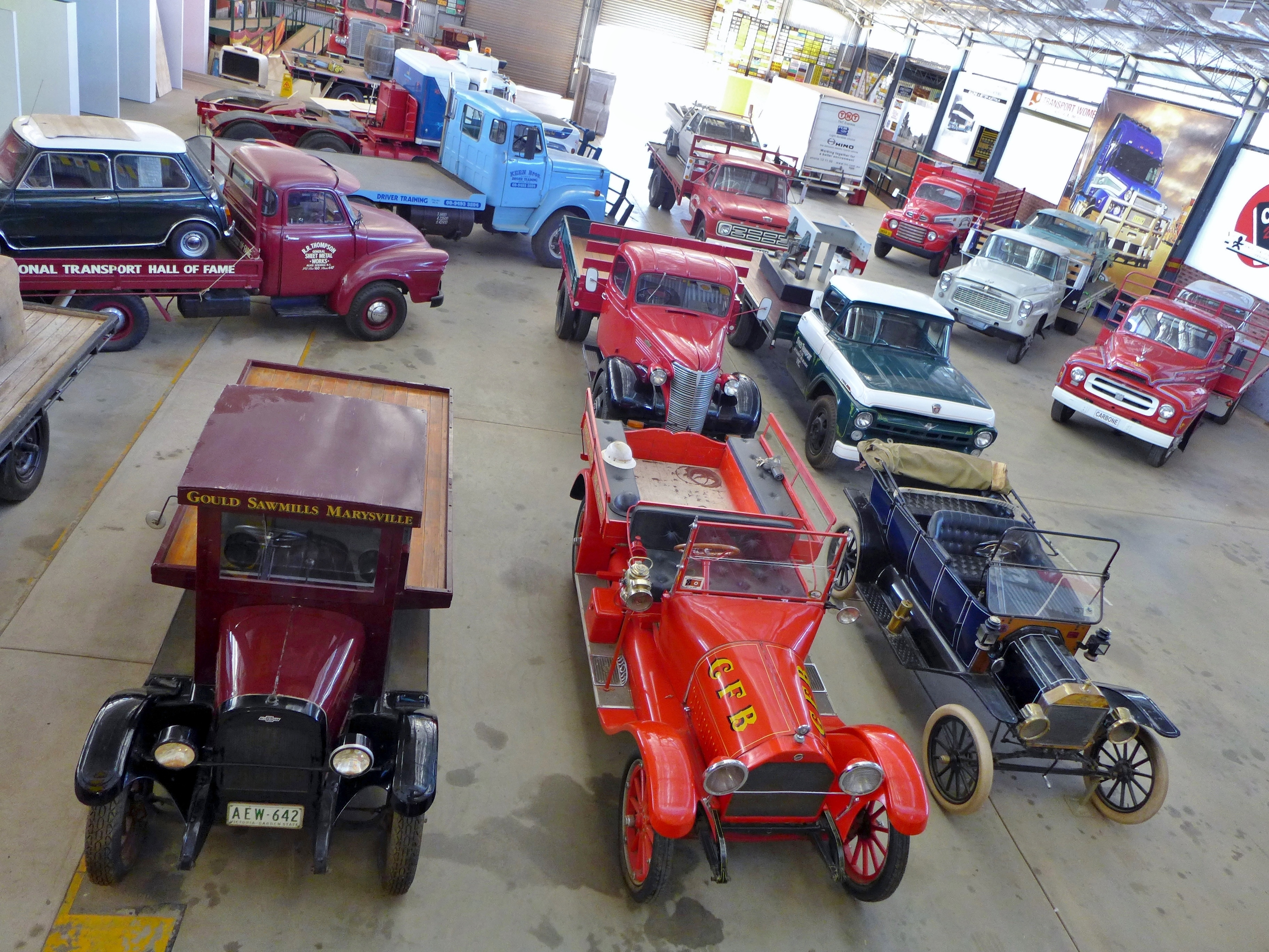 General view of trucks on display at the National Road Transport Hall of Fame, Alice Springs, NT, Australia.